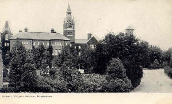 Brookwood Hospital Postcard, c.1900